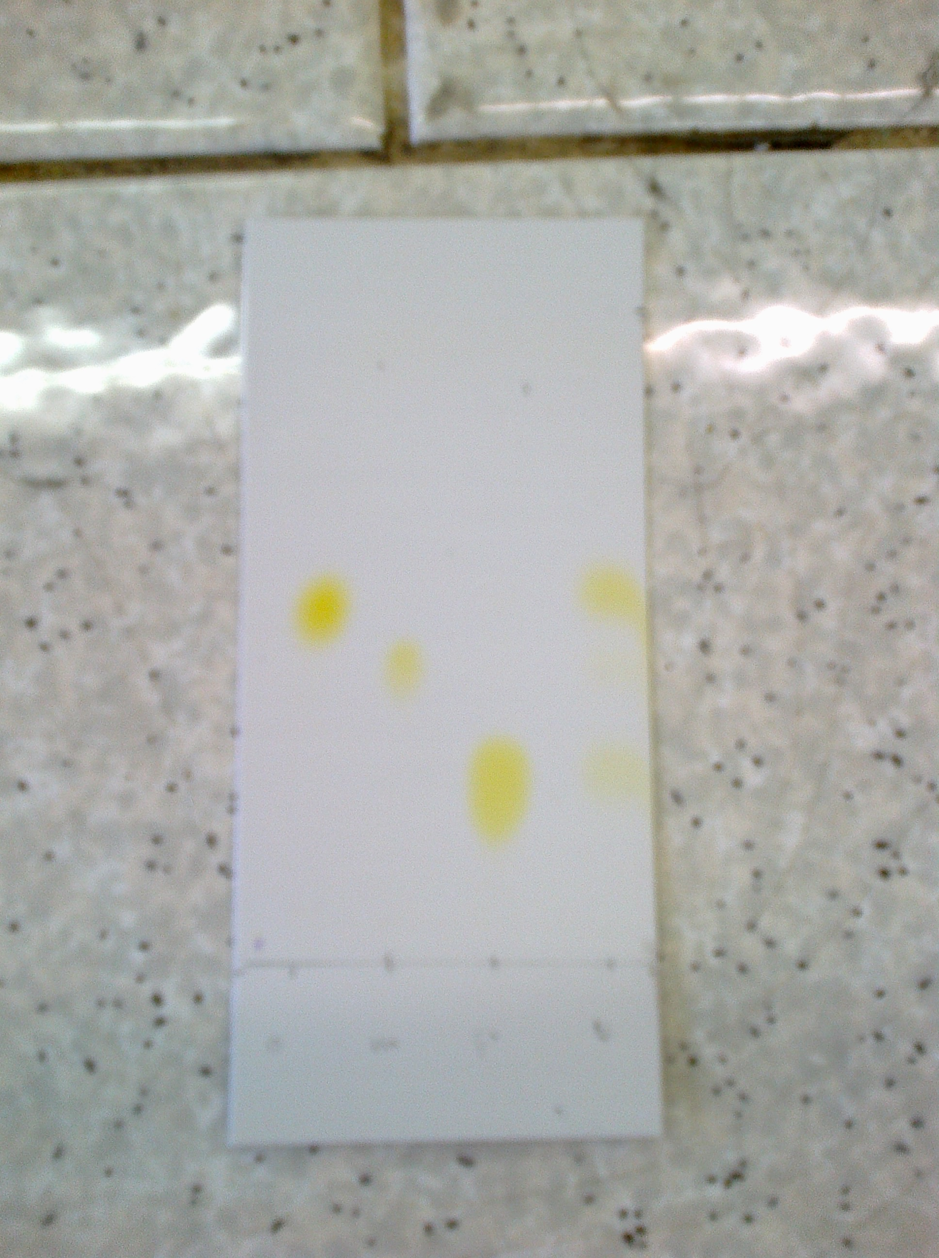 Thin layer chromatography of ortho-, meta- and para- isomer and a sample. Photo taken at Slovak University of Technology.